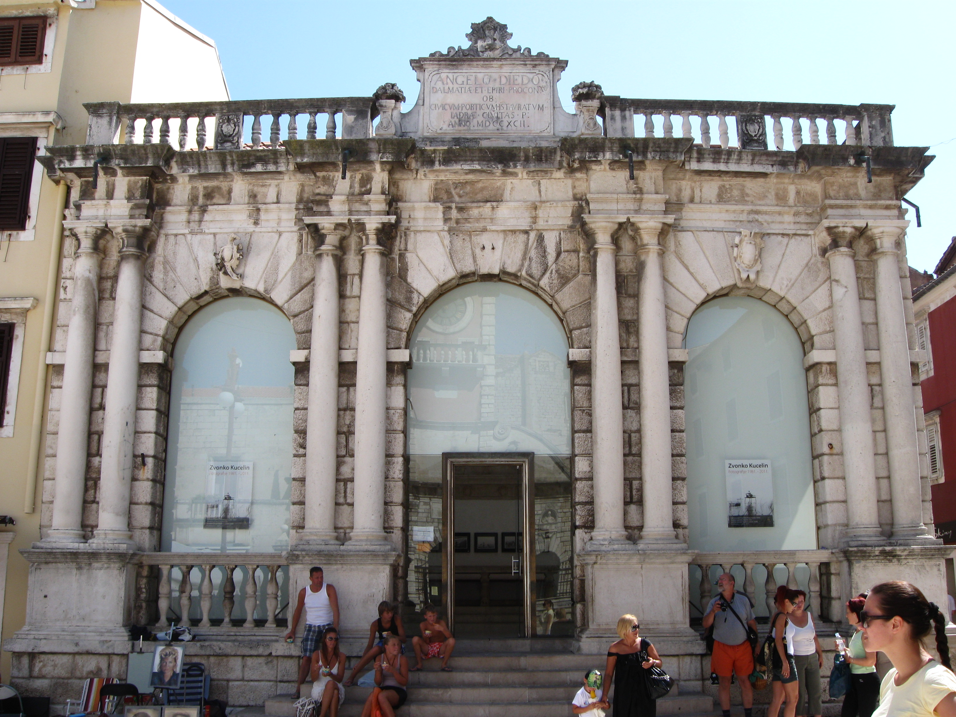 Loggia del Comune. Zadar, Croatia.